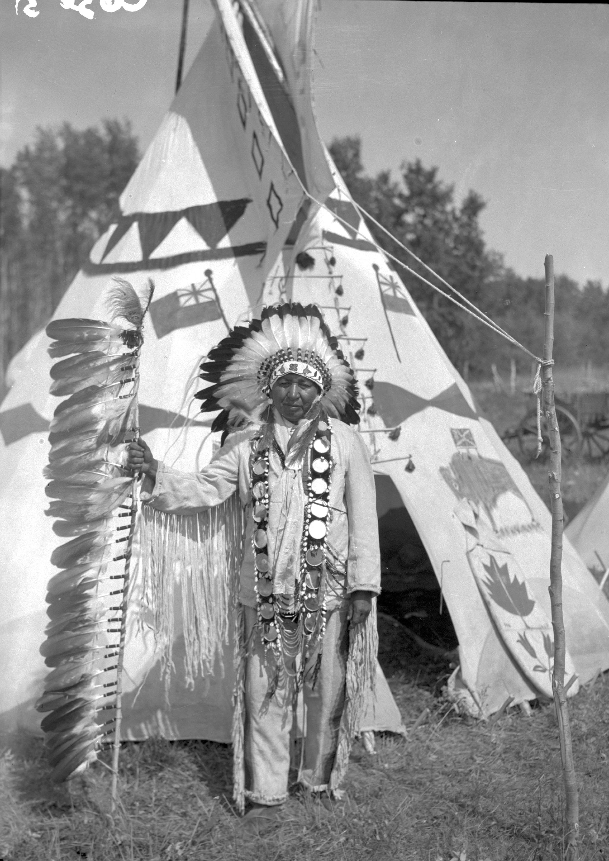 From the Paul Coze fonds, PR2006.0508/43.